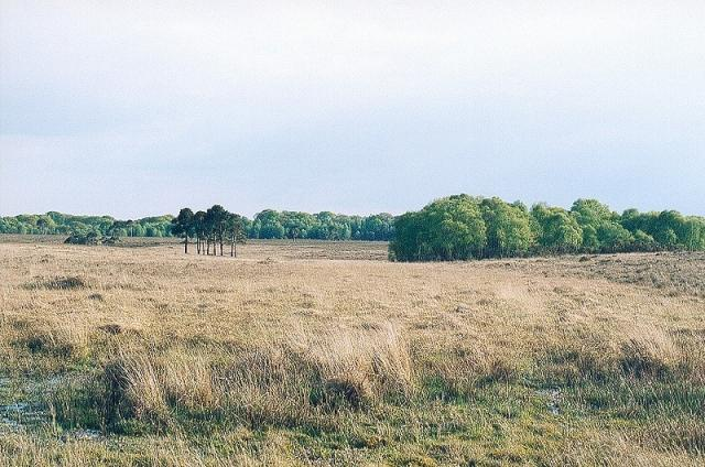 Moonhills Bog. I don't even know that that's its name; there's no named feature on the map within a quarter of a mile or so. But it's near Moonhills car park, it's a beautiful place, and I like it. So there.